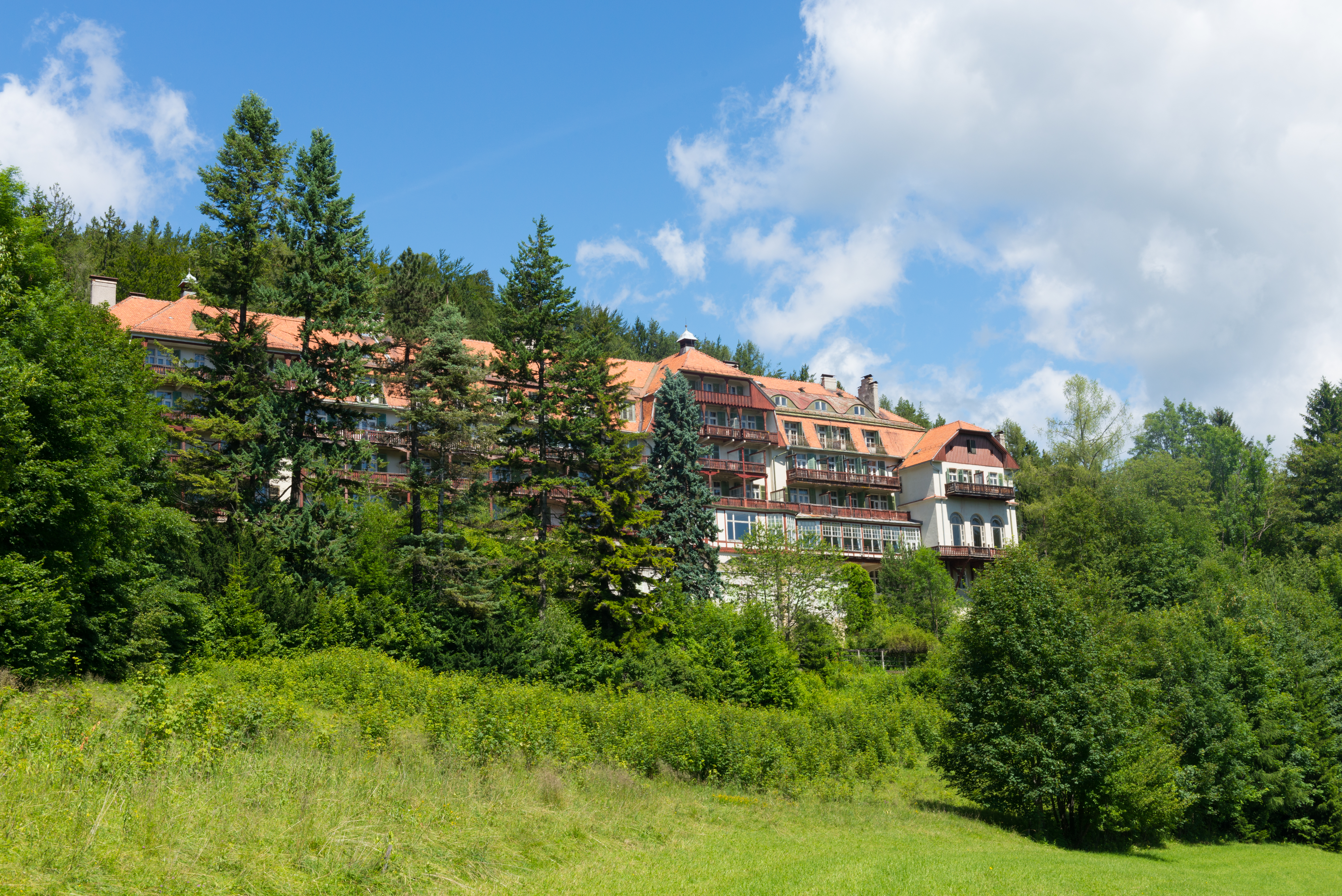 The Kurhaus Semmering on the southern slope of the Doppelreiterkogel.